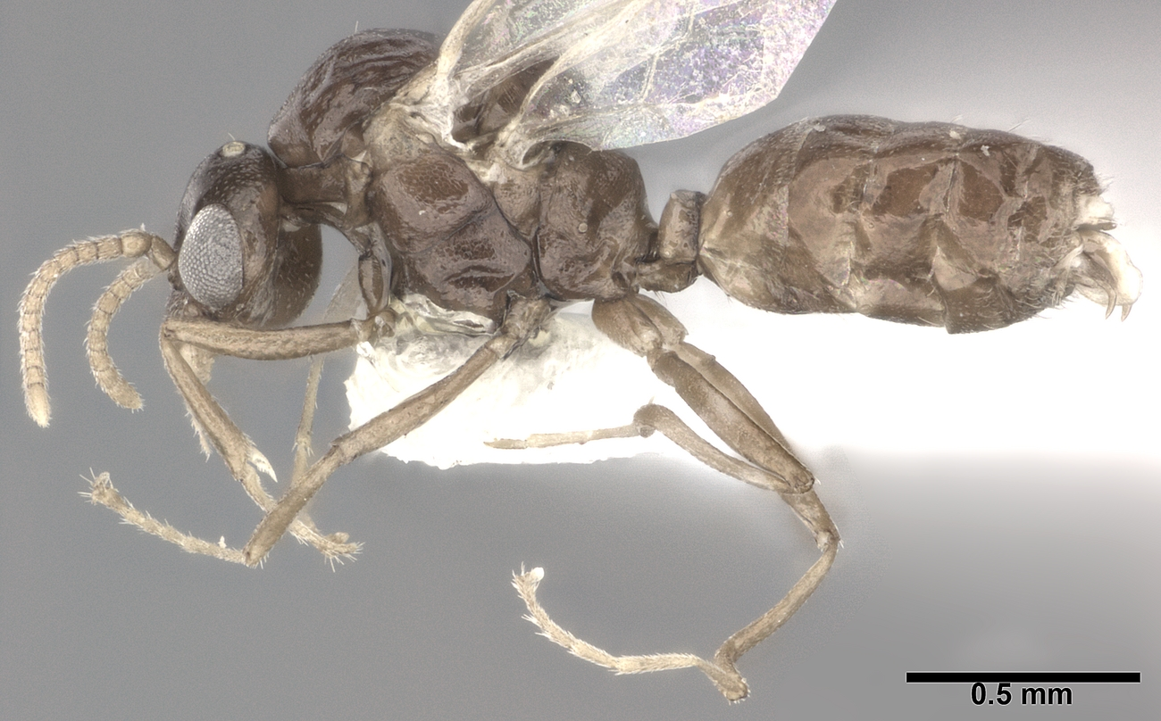 O. glaber male specimen